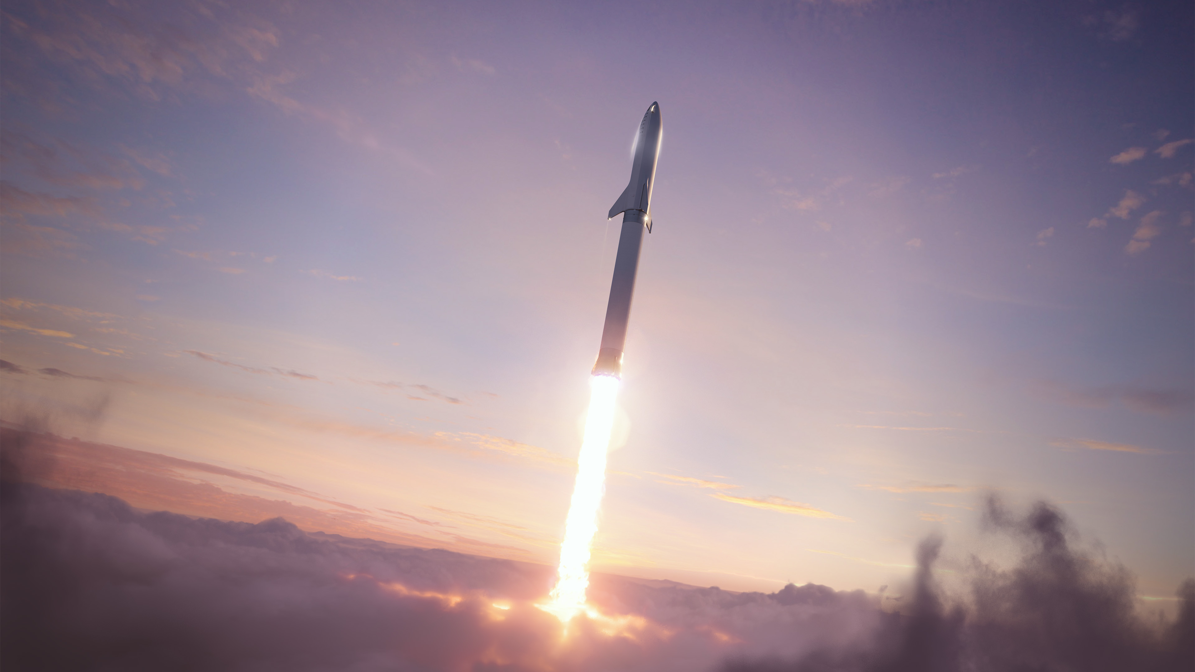 The Big Falcon Rocket ascending past clouds.